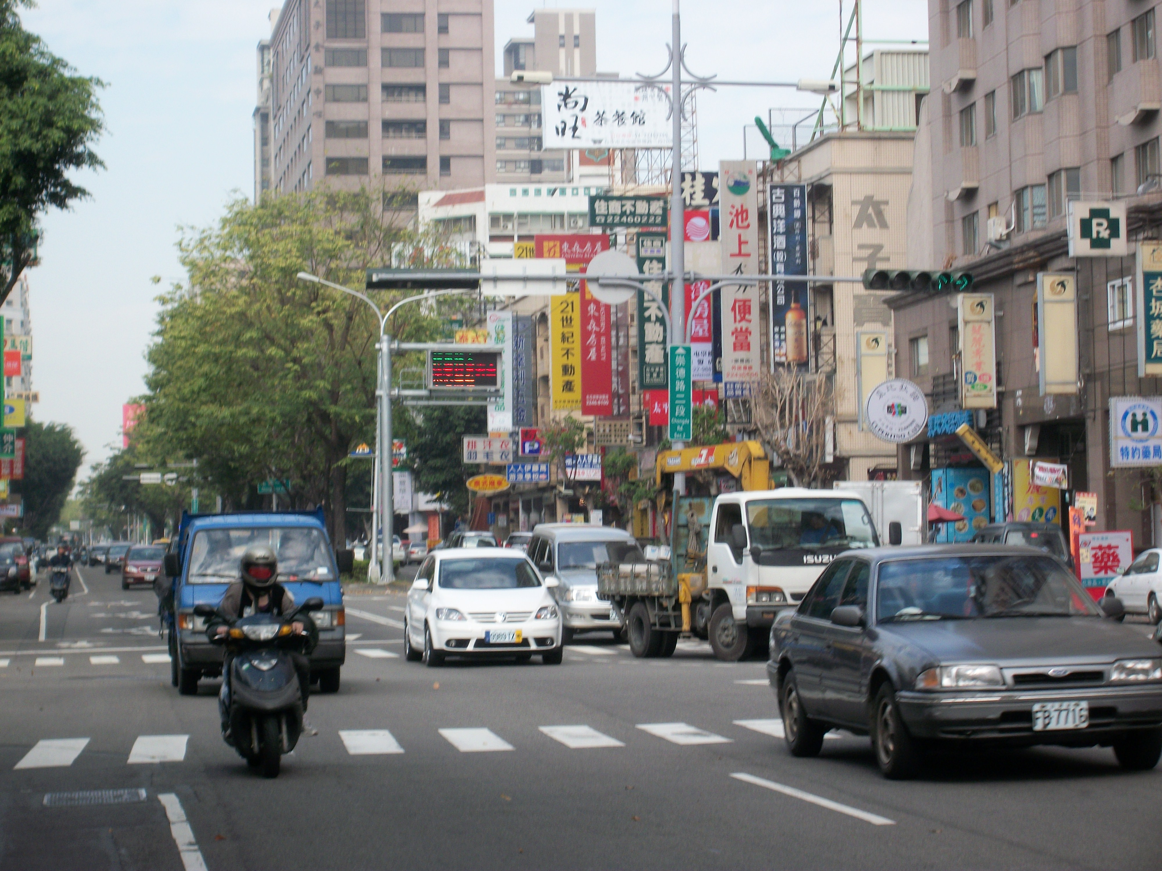 Looking northward alongside the Congde Road in Taichung City.中文（台灣）: 臺中市往北朝著崇德路看去。